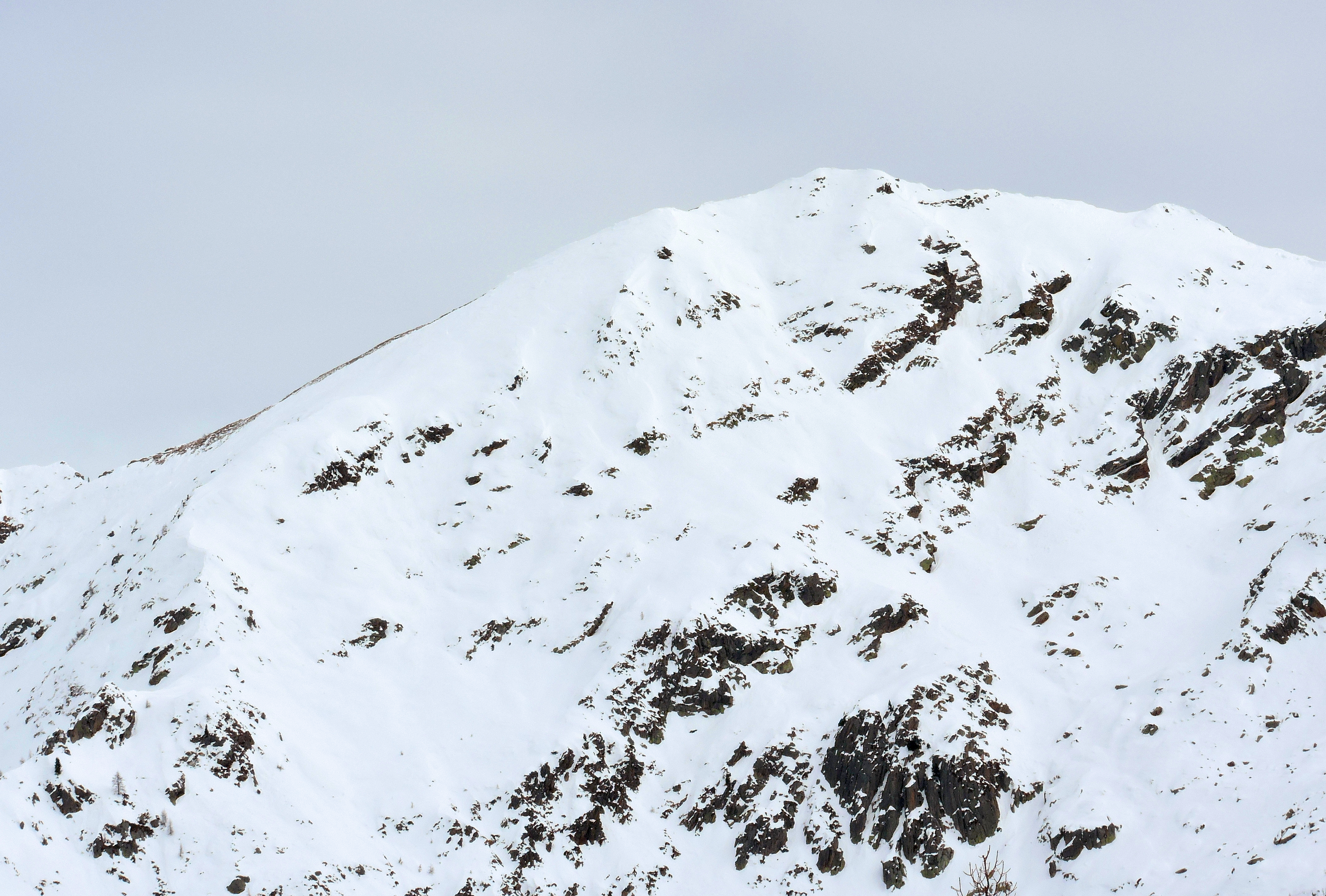 Punta Gran Gabe (AO/BI, Italy) from Pacola valley